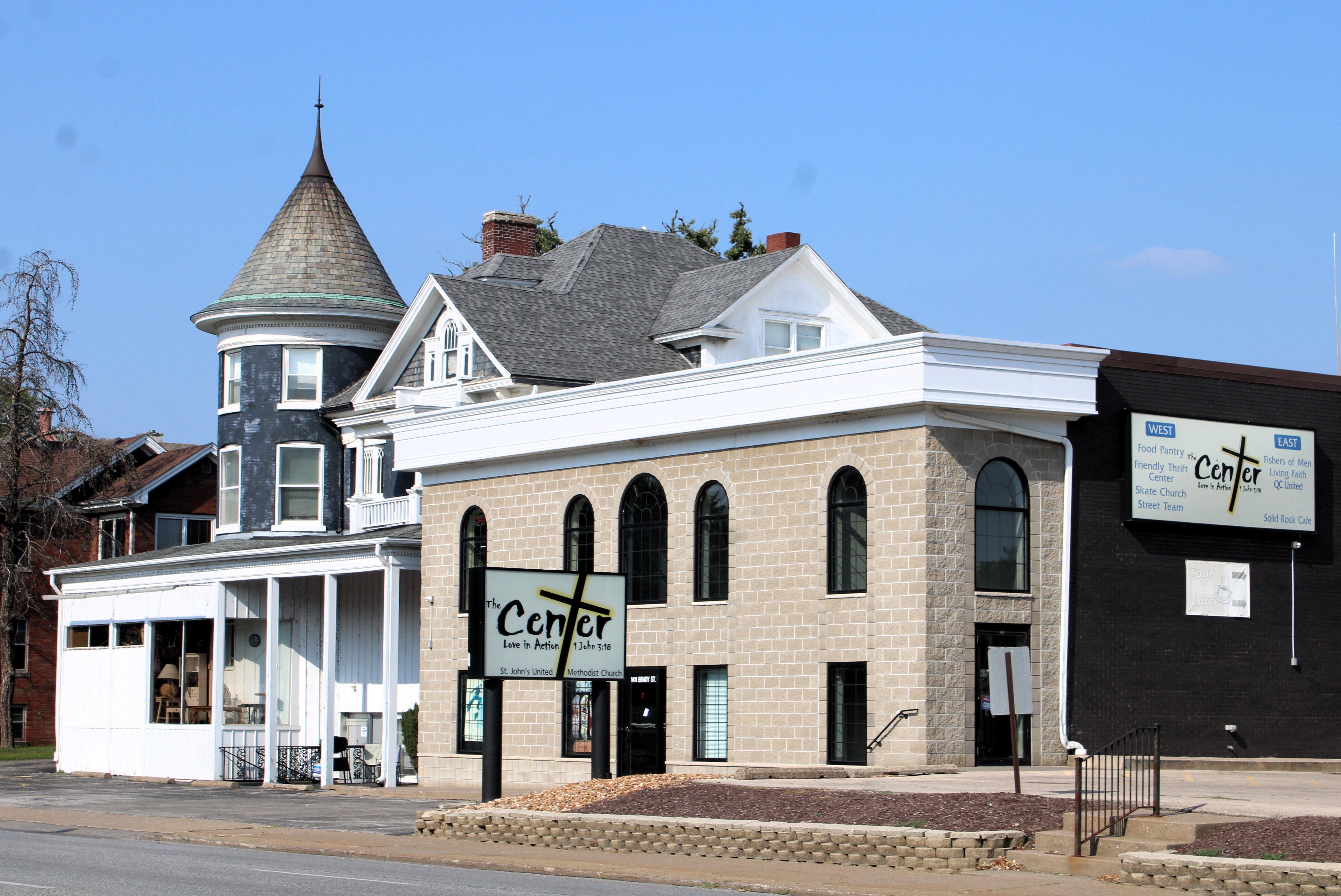 The Center, a facility that is part of the St. John's United Methodist Church complex in Davenport, Iowa